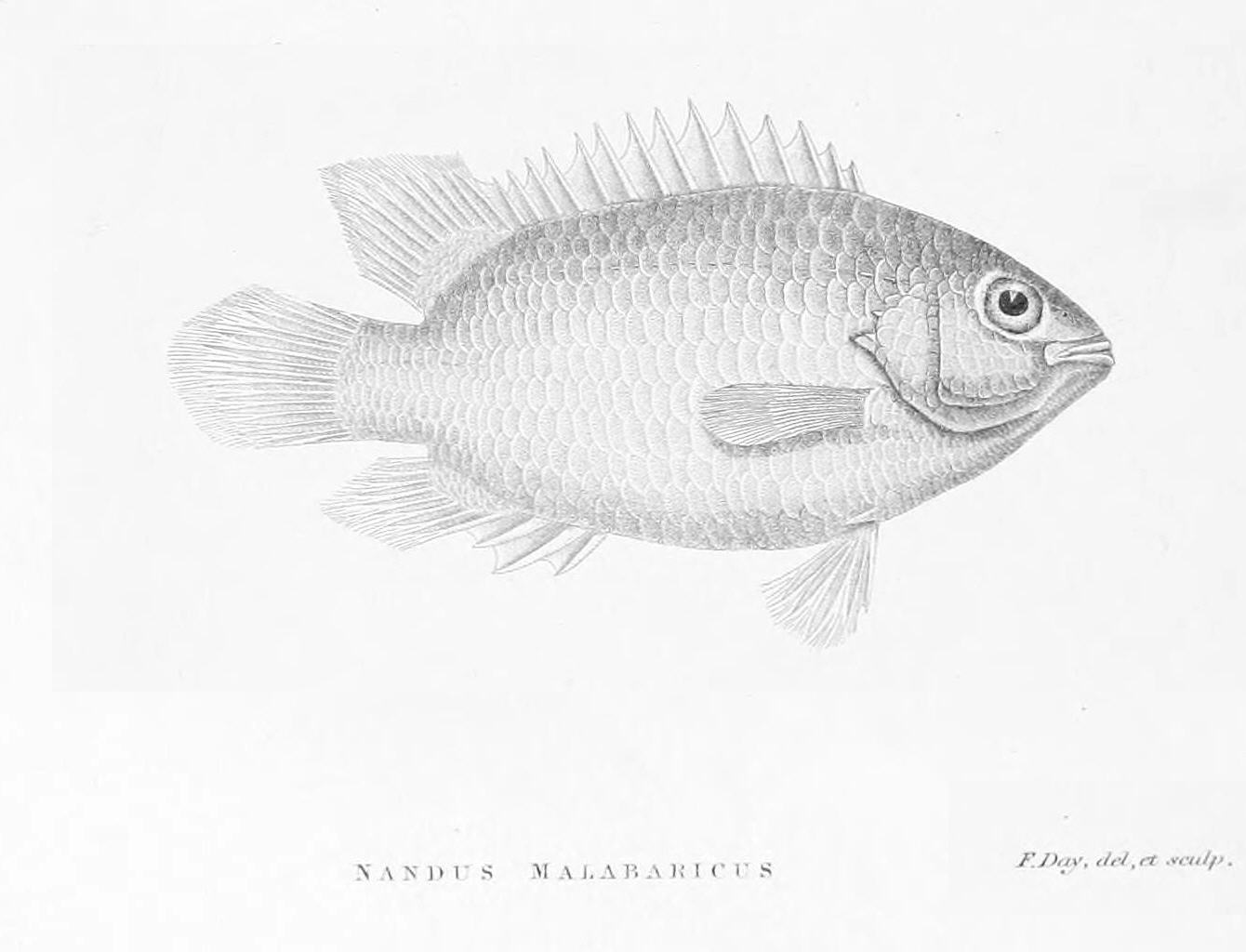 Pristolepis marginata syn. Nandus malabaricus